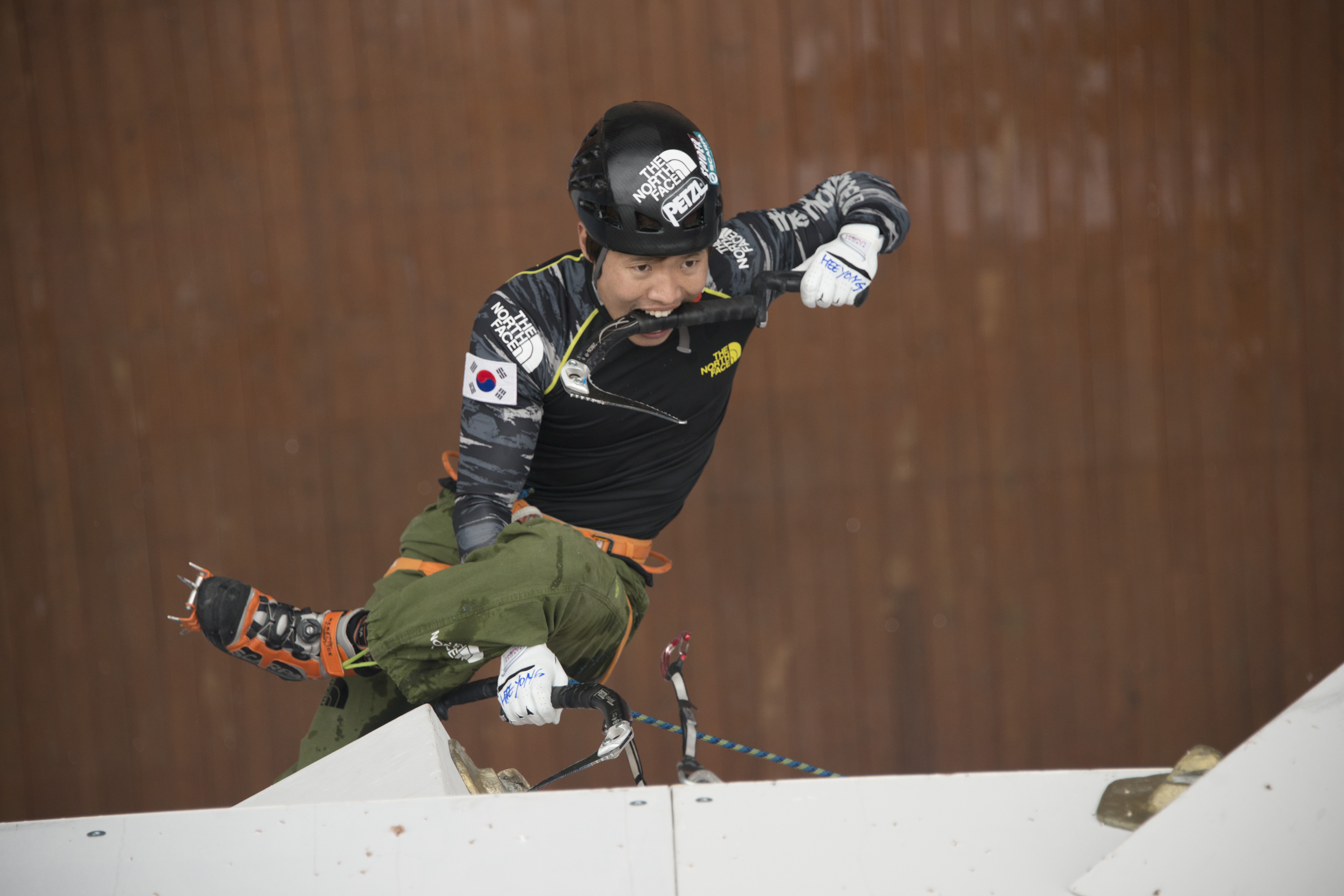 Sponsored by The North Face Korea. Cheongsong, 16-17 January, 2016 Copyright: Leah Kang for the UIAA